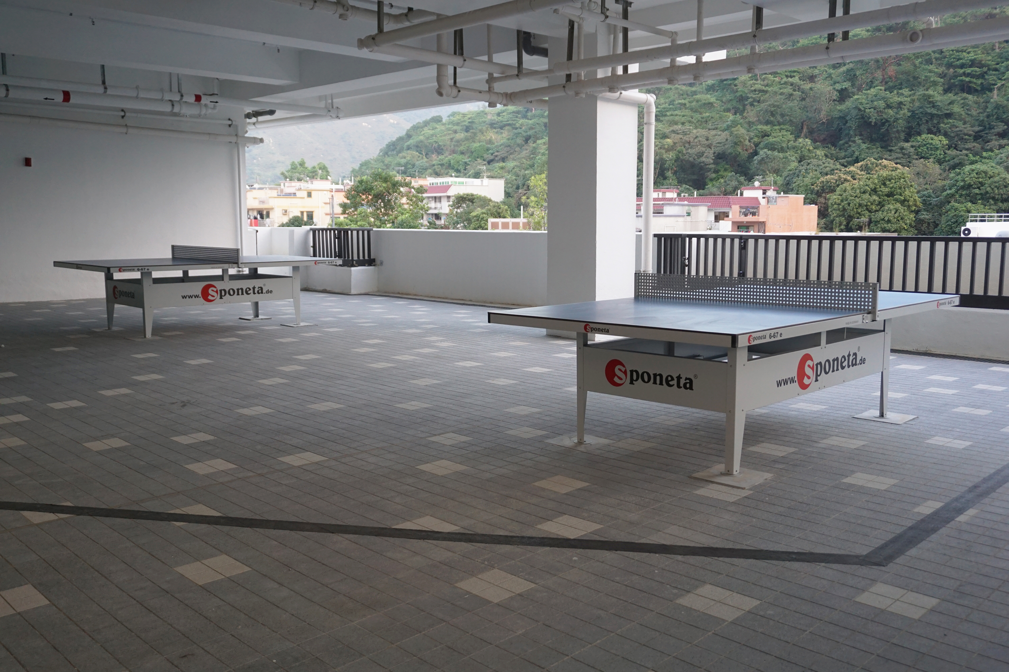 Mun Tung Estate in Tung Chung, Hong Kong.